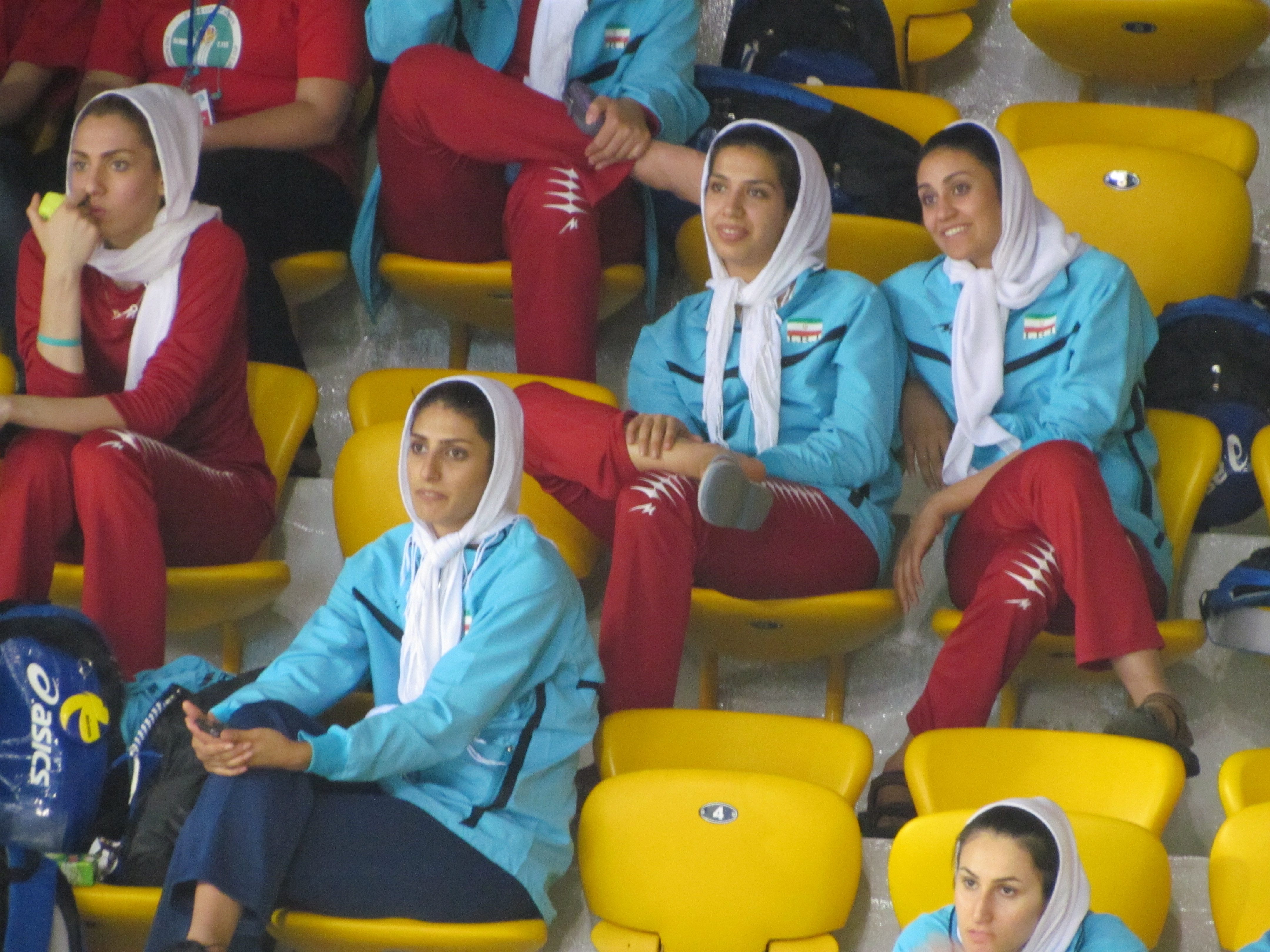 3rd AVC Cup for Women. Iranian volleyball players